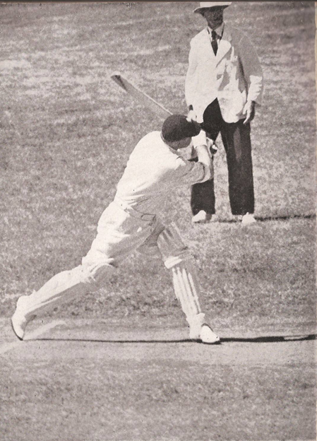 English cricketer Wally Hammond